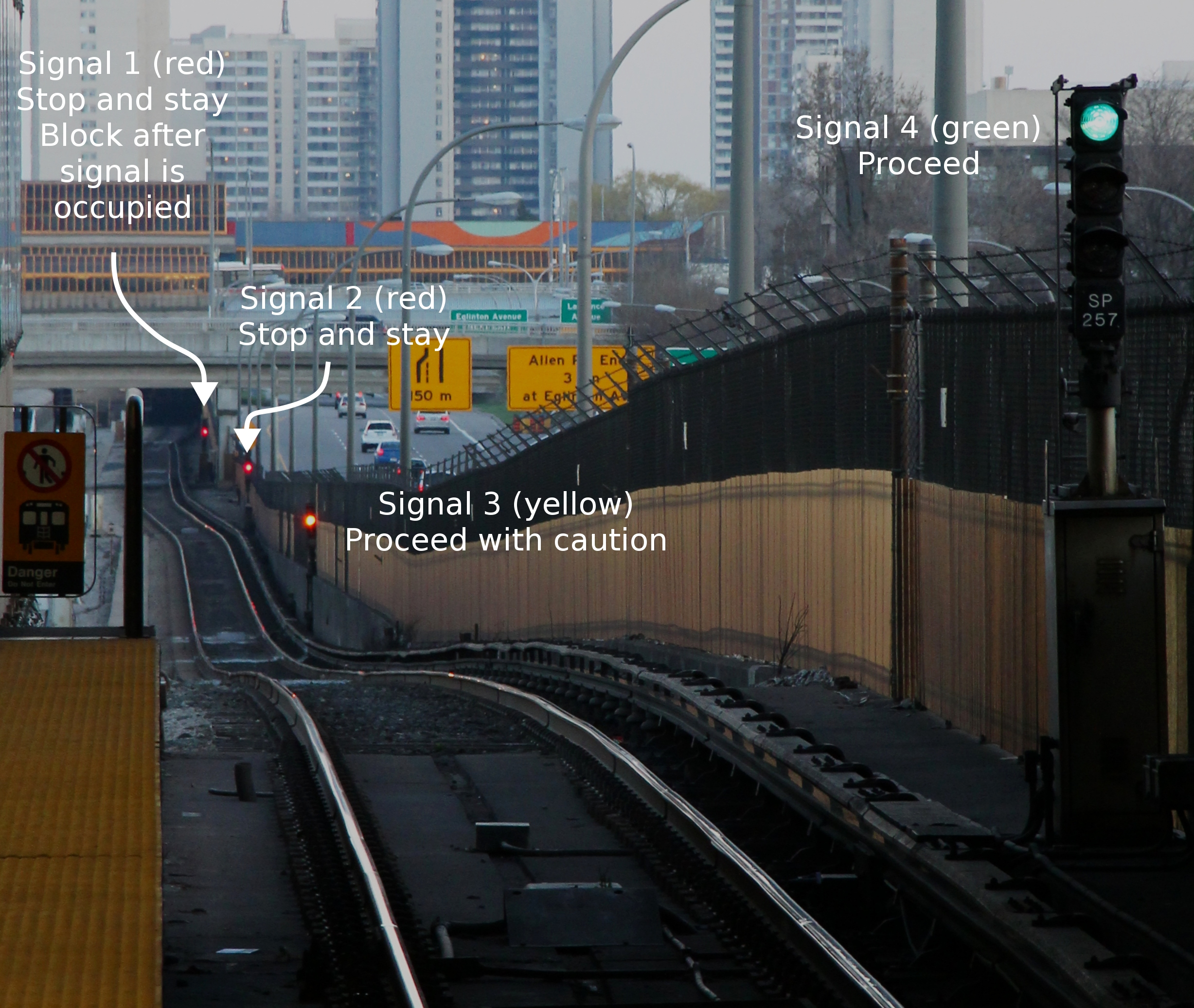 Looking south from the southbound subway platform at Yorkdale station on the Toronto Transit Commission's Yonge–University–Spadina line. This is the captioned version of File:TTC signal blocks.JPG. Four signals are visible. Their aspects represent, from most distant (left) to nearest: Red (stop) - the block controlled by this signal contains a train (not visible) Red (stop) - the block after the block controlled by this signal contains a train Yellow (proceed with caution) - the next signal is at stop. Green (proceed).